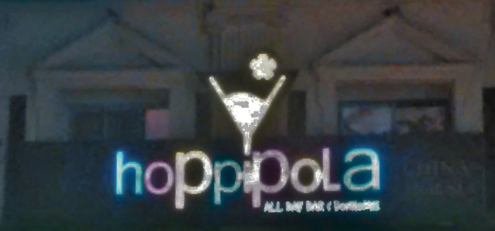 Hoppipola logo at its outlet in Galleria, Powai, Mumbai.